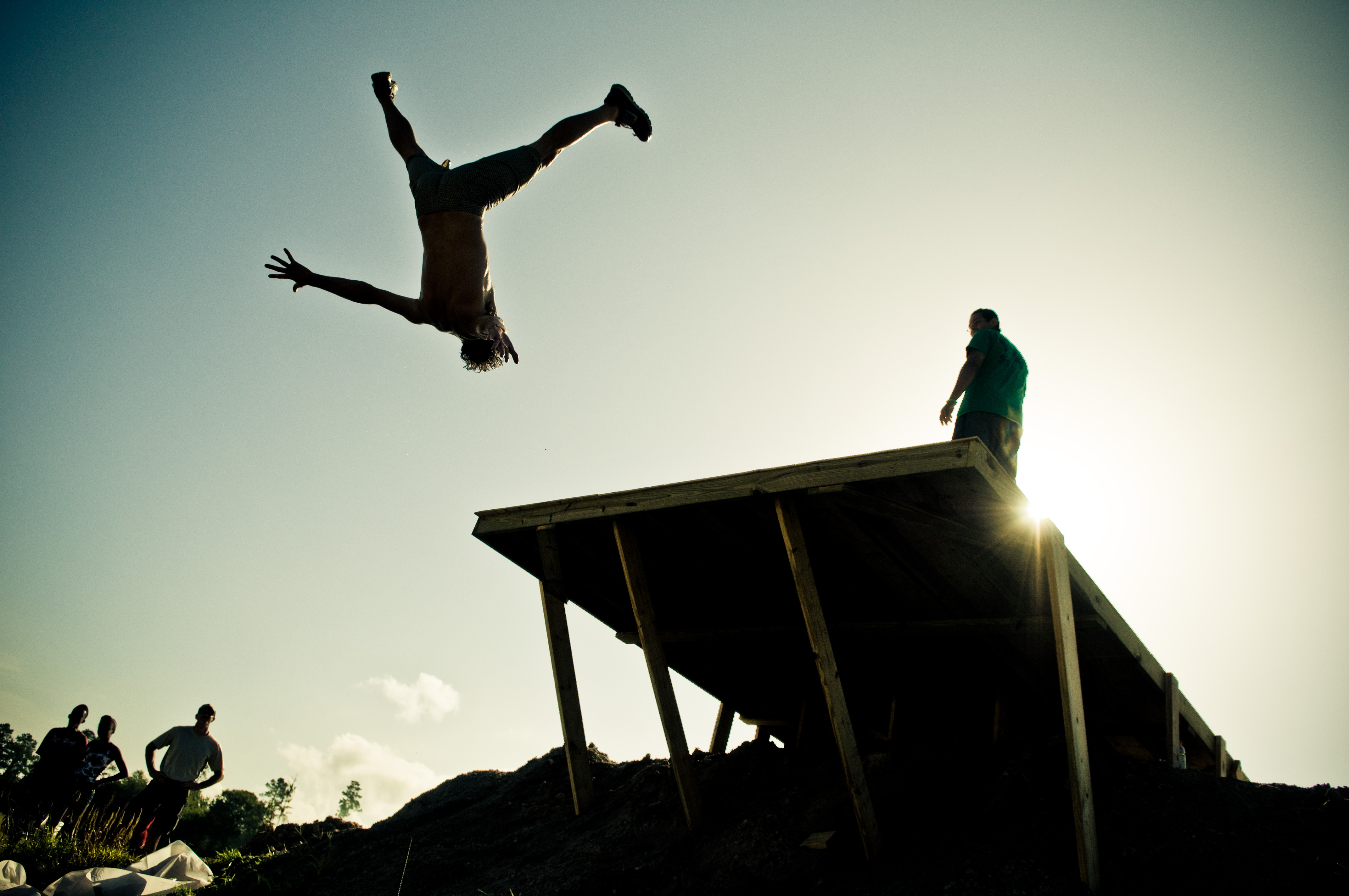 Leap of Faith flip